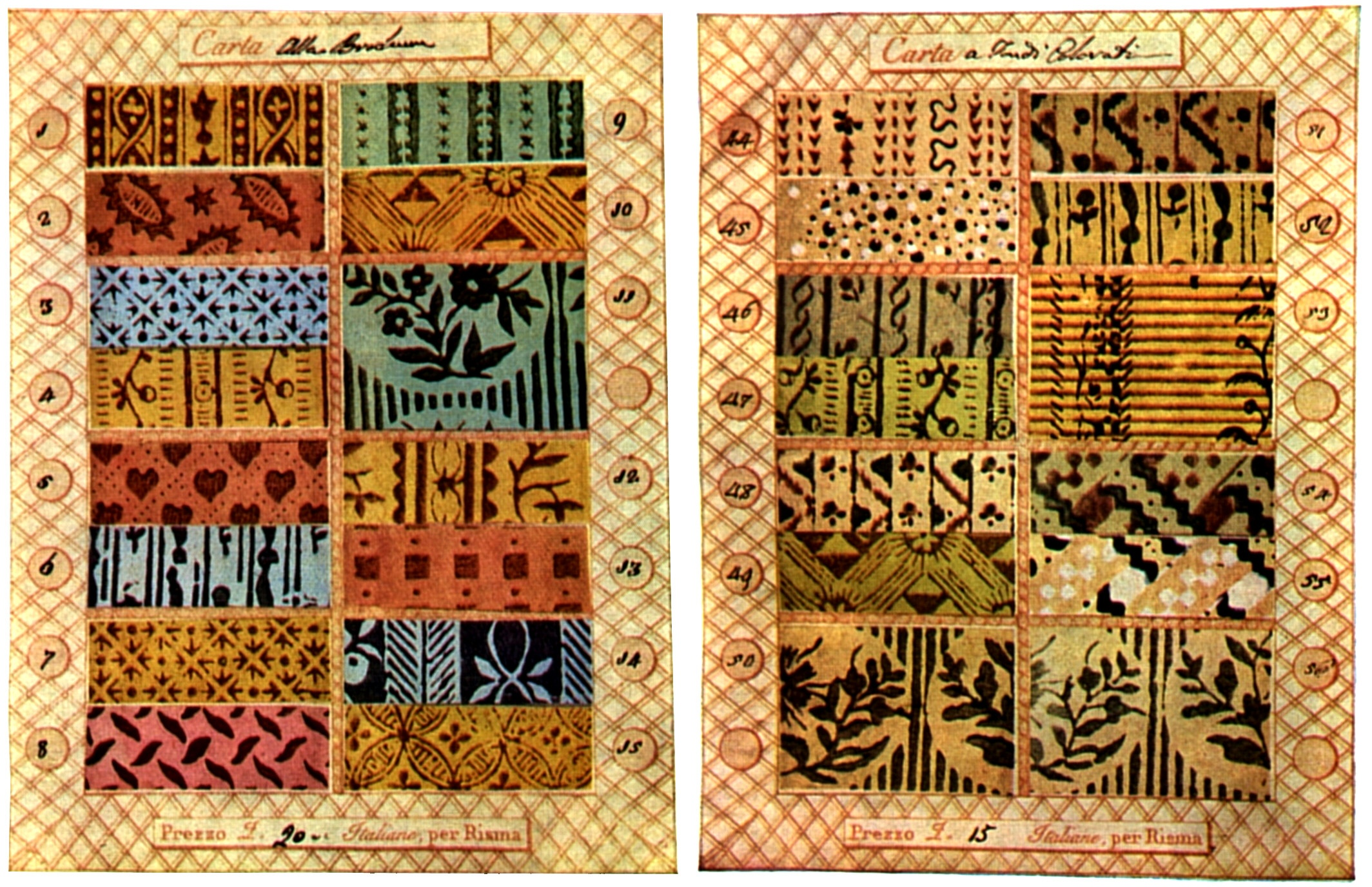 Wallpaper catalog of Remondini - Bassano - Italy